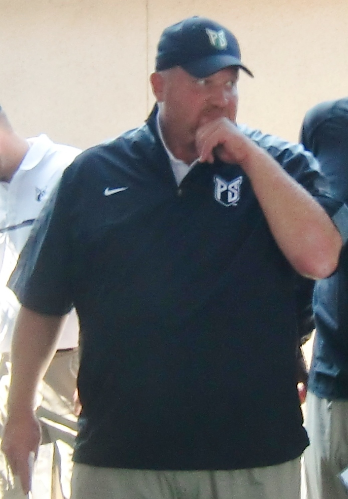 Portland State University football head coach Bruce Barnum at CEFCU Stadium in San Jose, Calif. on Sept. 10, 2016 during Portland State's game against San Jose State.